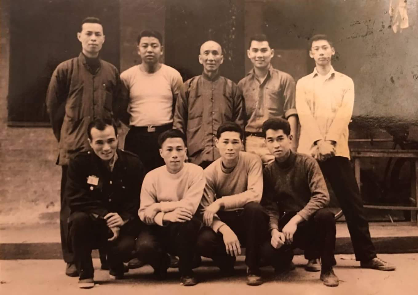 Group photo at Grandmaster Ip Man's class. Chow Tze Chuen is down to the left.